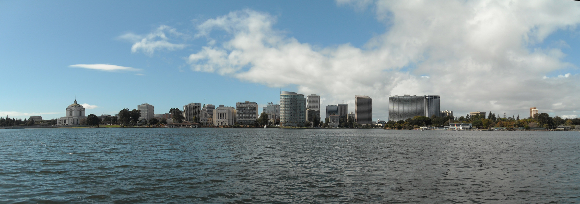 A view of the Oakland skyline from Lake Merritt, `Oakland, California